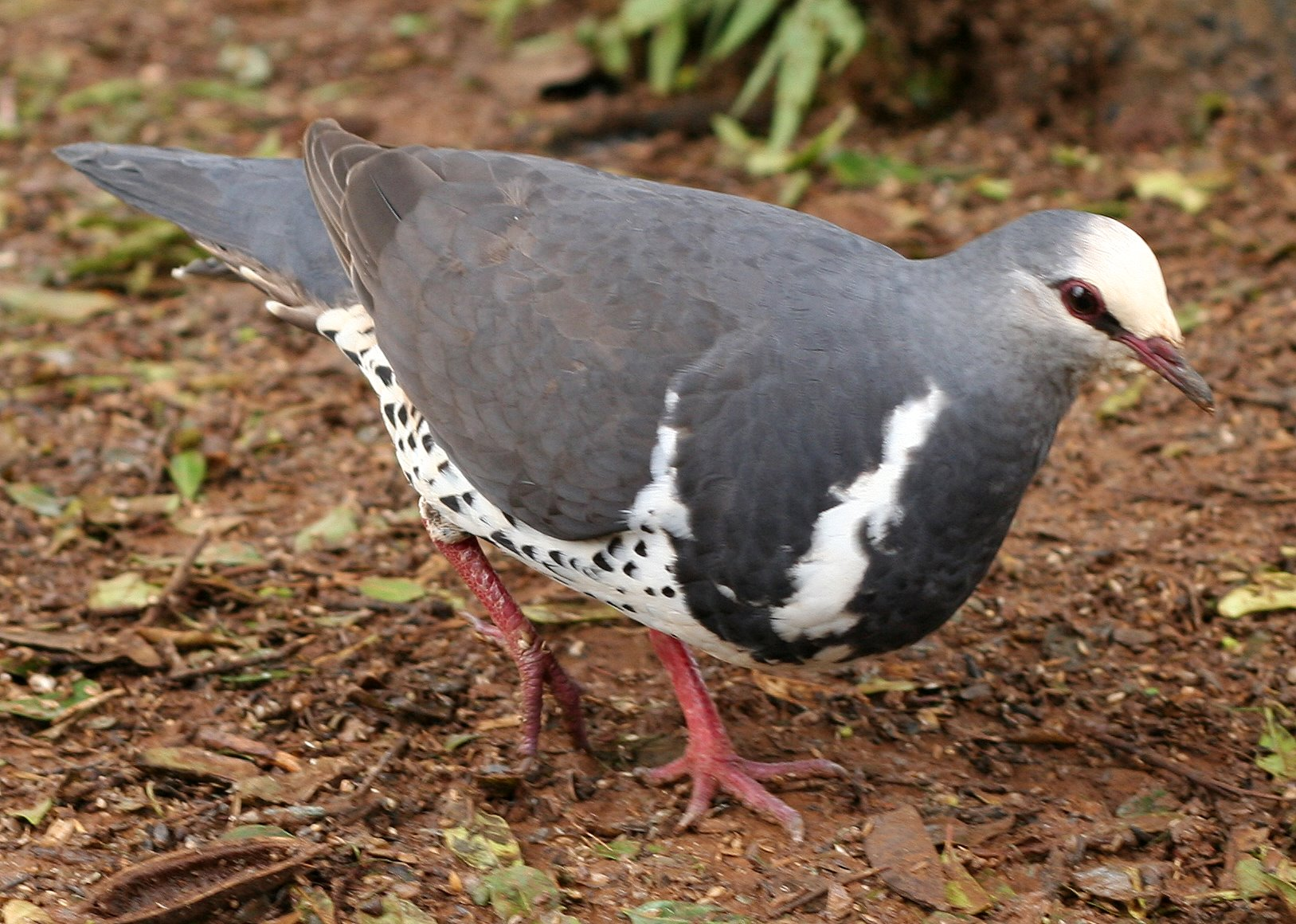 Wonga Pigeon Leucosarcia melanoleuca; wild bird, O'Reillys Guest House, Lamington National Park, Qld, Australia